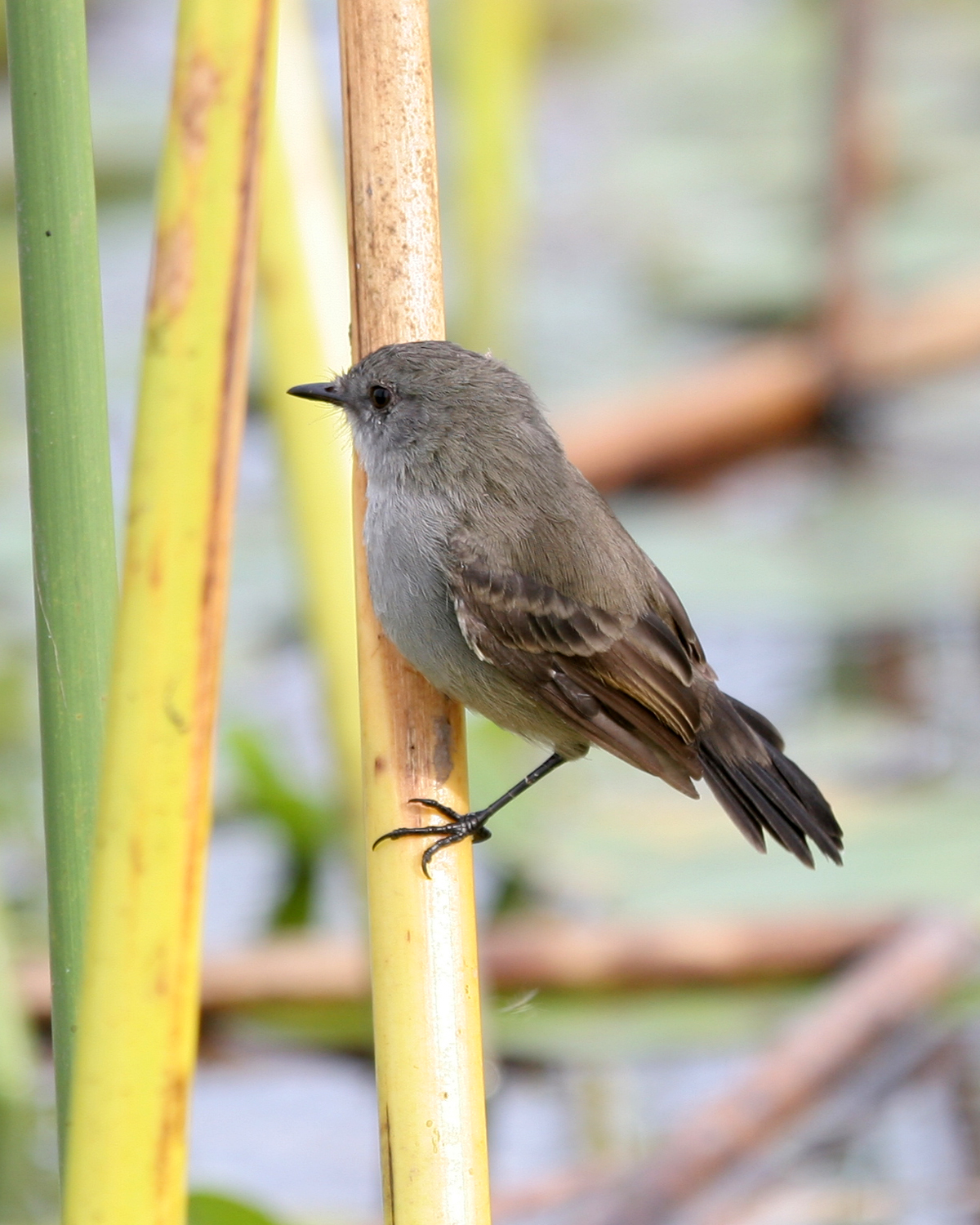 Sooty Tyrannulet Serpophaga nigricans 8th. April 2006 Entre Rios, Argentina Distribution